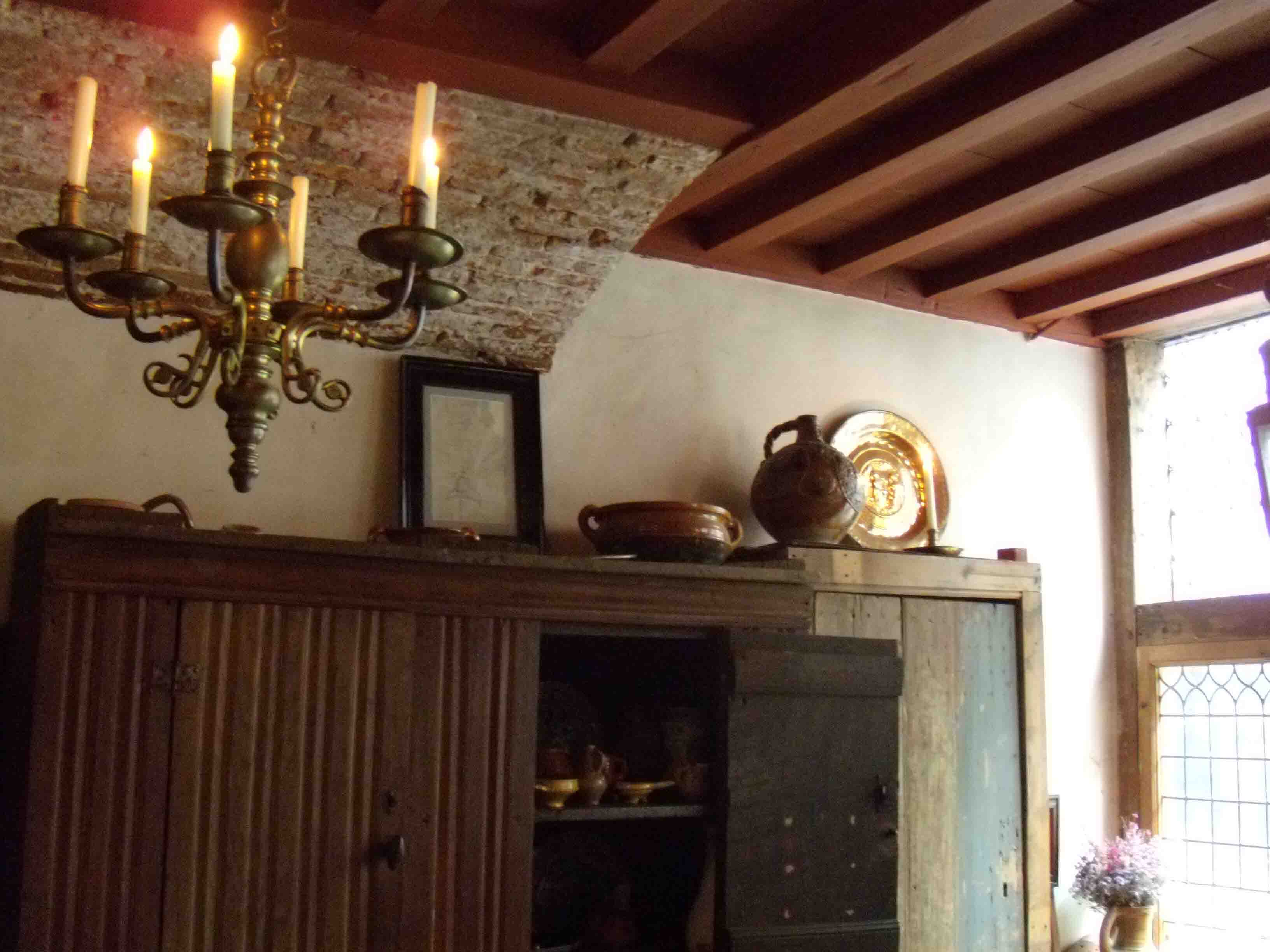 Leiden_American_Pilgrim_Museum